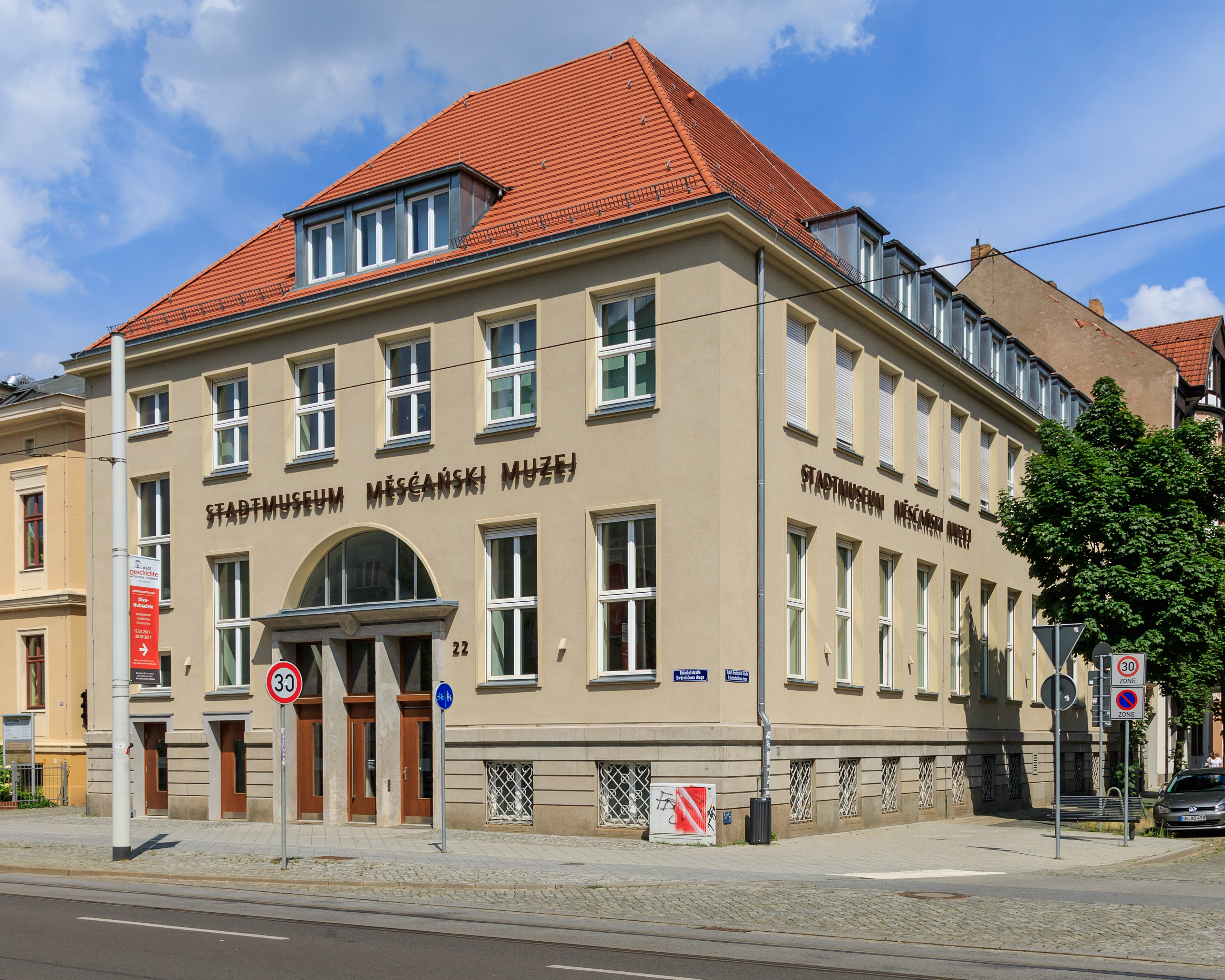 Building of the Local museum in Cottbus (Germany)